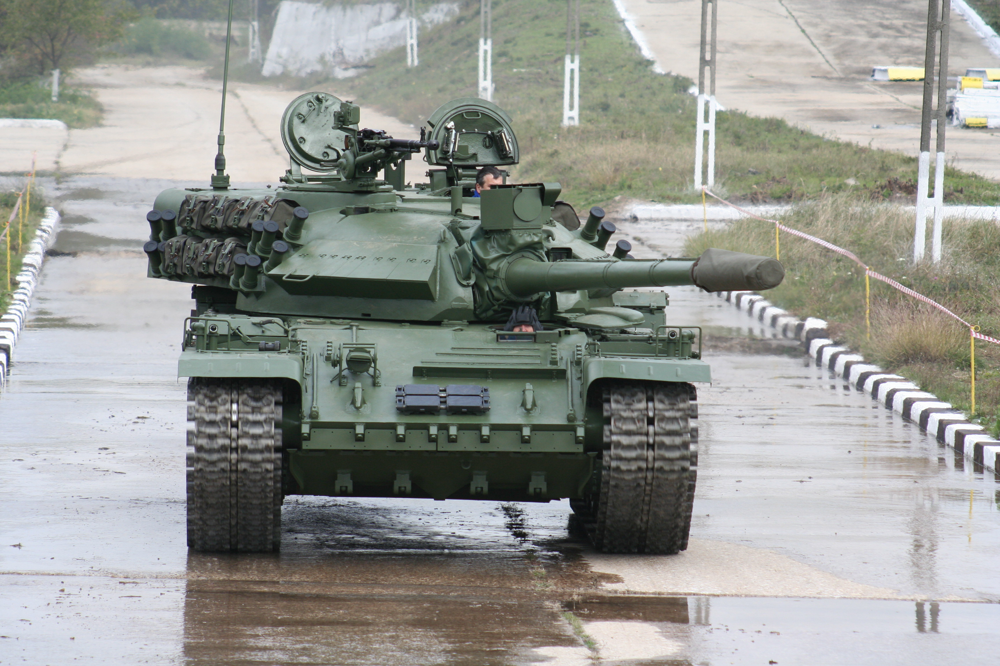 TR-85M1 demonstration in Mihai Bravu firing range.